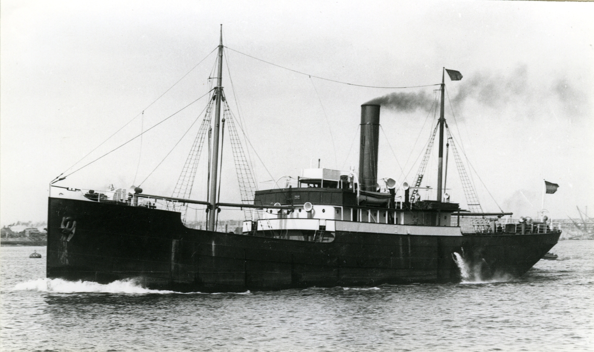 General cargo ship ELBERFELD (ID 1146062) built at shipyard Schömer & Jensen, Tönning, as MINNA HORN (yard № 54, launched: 20-05-1904, delivered: 16-08-1904), later names: HORLEY GRANGE, BENLOS, NORDKAP, VESTFOLD, HEDDY, wrecked Luro Skerries, Lake Vaner, 27-10-1931, broken up Otterbäcken 1932, collection of J. Robert Boman (1926 - 2002), owned by Sjöhistoriska museet.